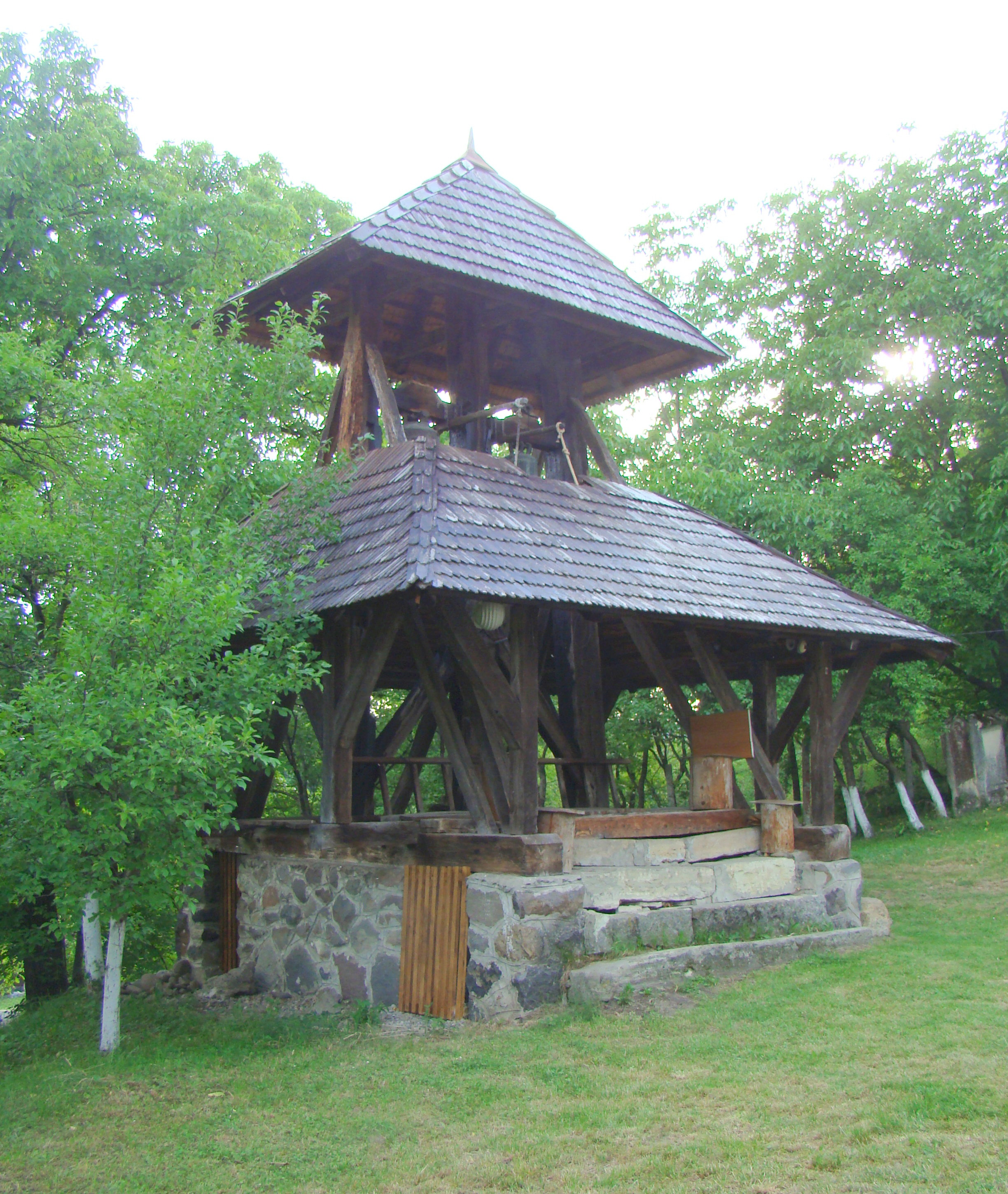 Reformed church in Brâncovenești, Mureş county, Romania